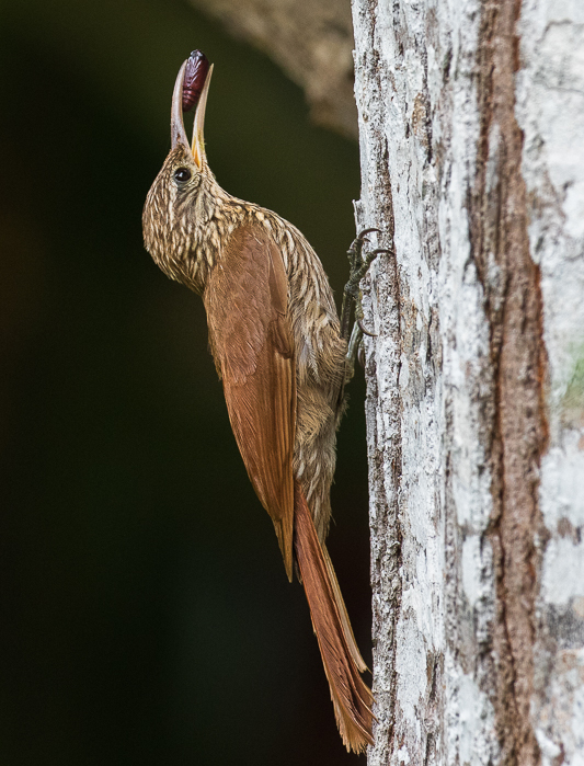 Streak-headed Woodcreeper - Darien - Panama CD5A1094